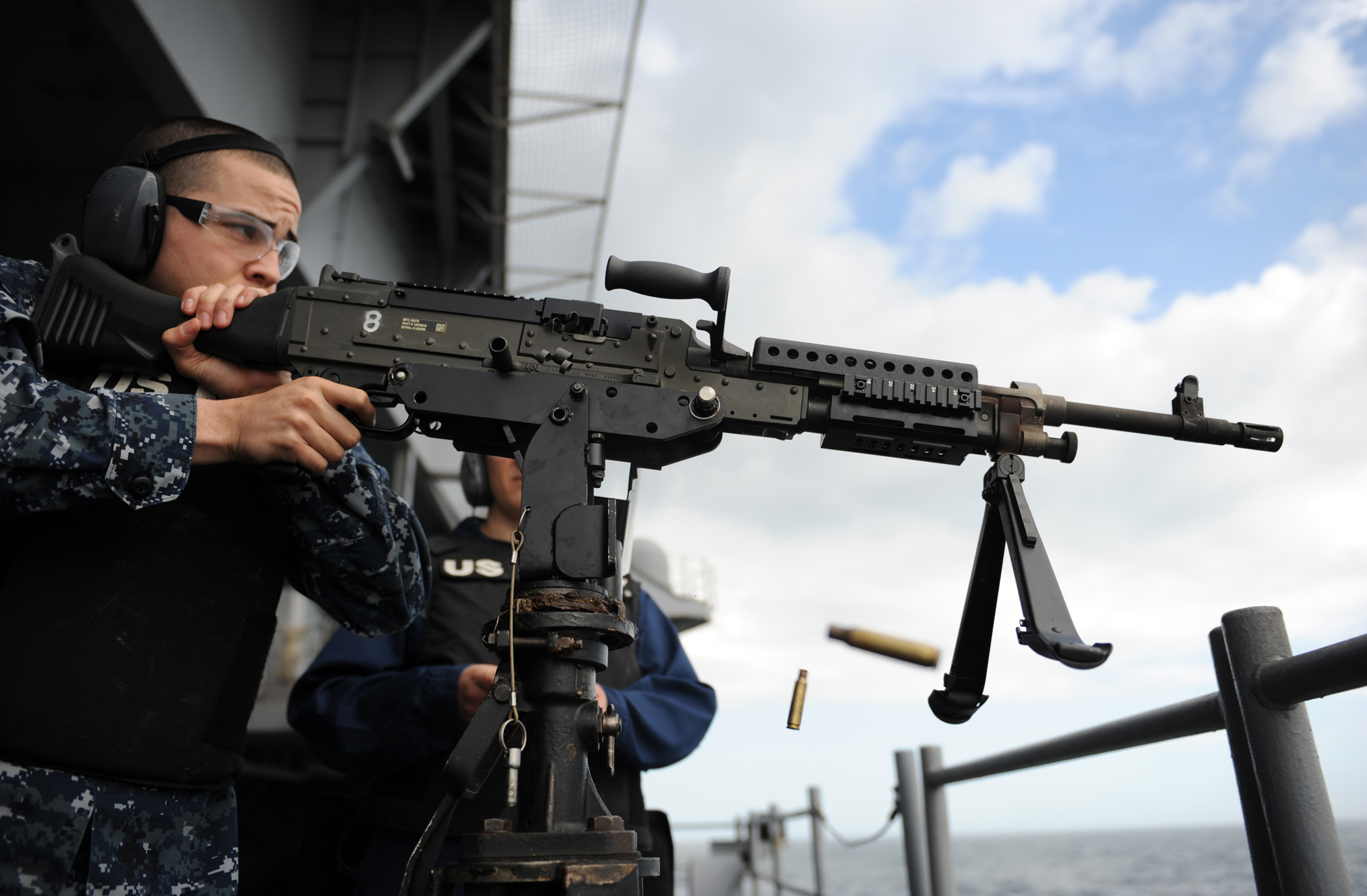 ATLANTIC OCEAN (March 18, 2012) Aviation Electronics Technician Airman Joshua Ramos fires an M240B machine gun during a live-fire exercise on the fantail aboard the forward-deployed nuclear-powered aircraft carrier USS George H.W. Bush (CVN 77). George H.W. Bush is in the Atlantic Ocean conducting carrier qualifications. (U.S. Navy photo by Mass Communication Specialist Seaman Brian Read Castillo/Released) 120318-N-XE109-106 Join the conversation navylive.dodlive.mil